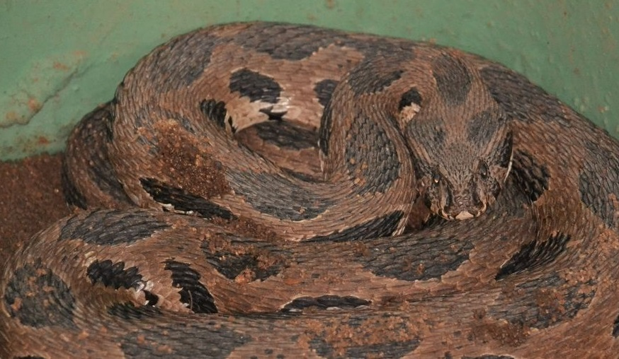 Russell's-Viper-India